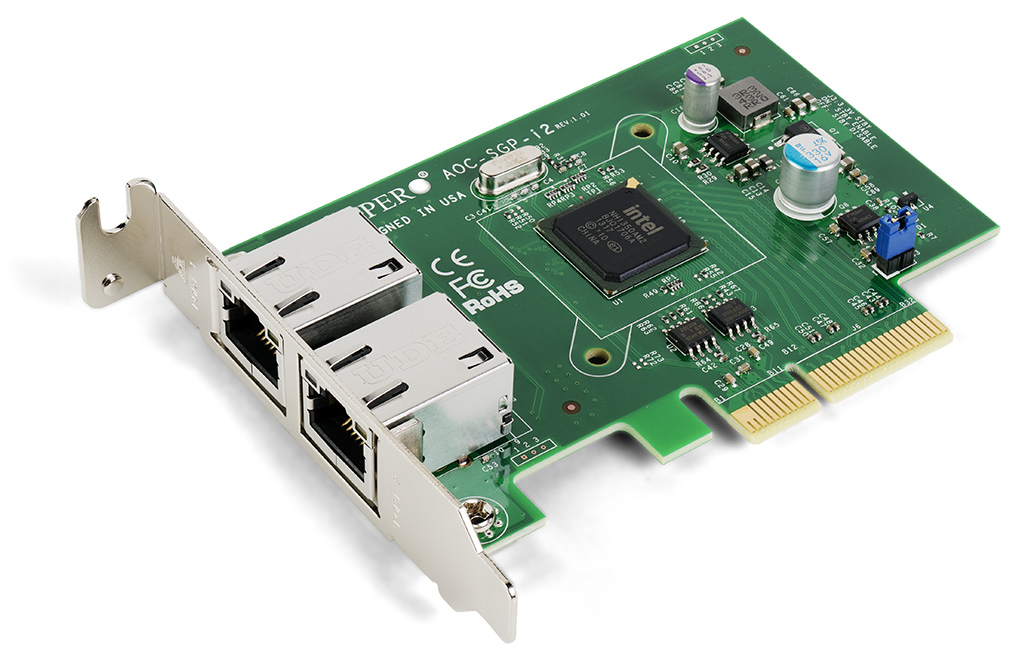 Supermicro AOC-SGP-I2 Gigabit Ethernet NIC, low profile PCI Express 2.0 x4 card, dual 1000BASE-T ports, based on Intel i350 GbE controller.